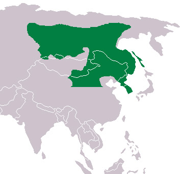 Siberian Musk Deer (Moschus moschiferus) areal